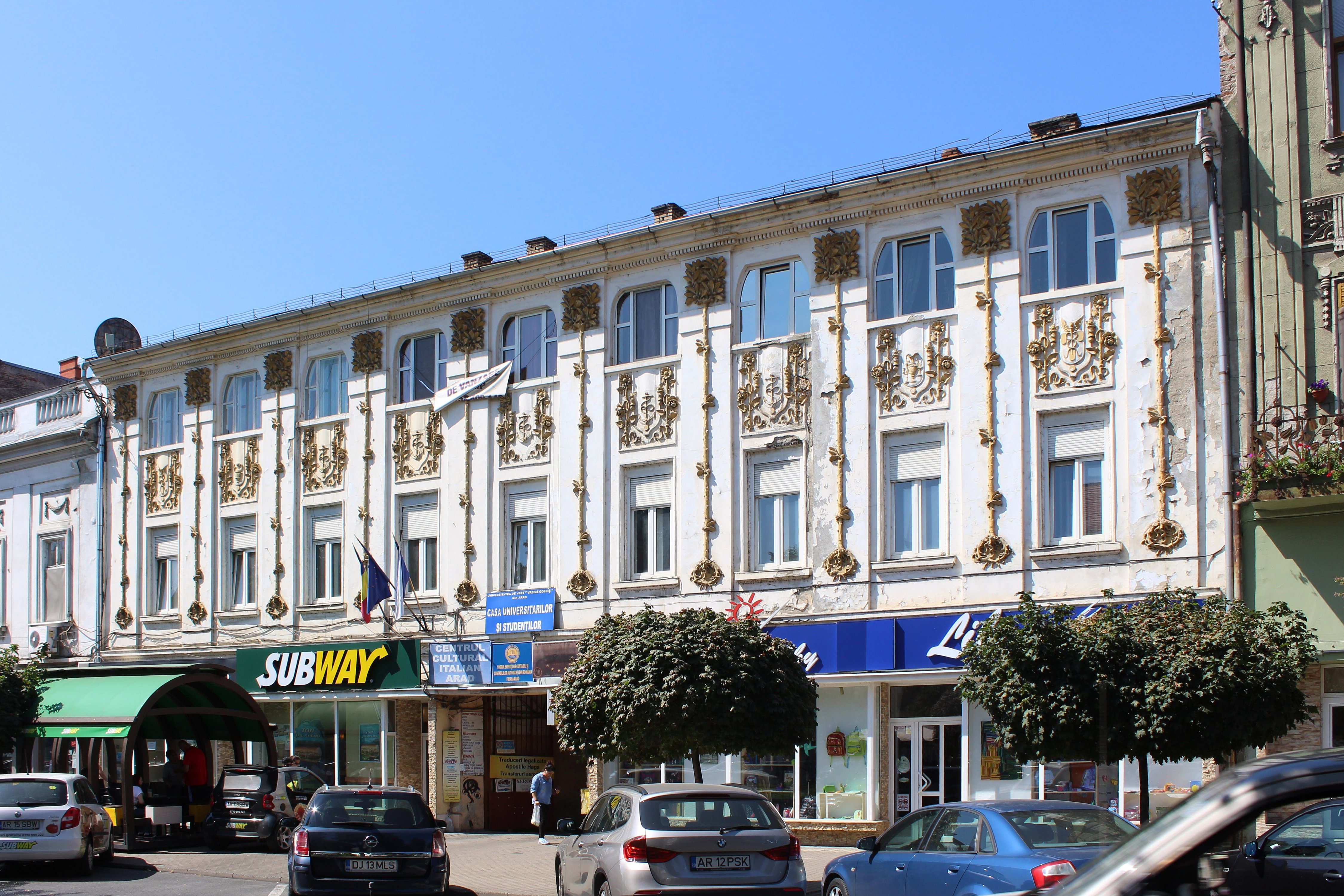 Albert Szabó Palace, Arad, Romania, built about 1900